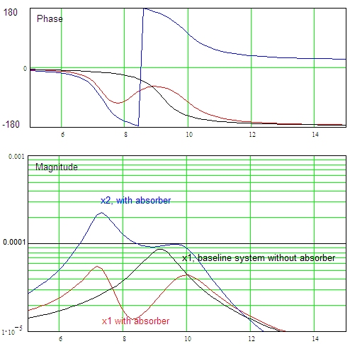 Plot created by myself using several tools and engineering equations. The PNG crusade bot automatically converted this image to the more efficient PNG format. The image was originally uploaded as "2dof plots.jpg".